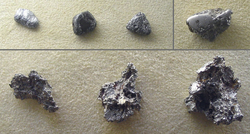 An assortment of nuggets of native platinum from California (top-left) and Sierra Leone (top-right and bottom). The bottom nuggets show impressions of the enclosing matrix. Photograph taken at the Natural History Museum, London.